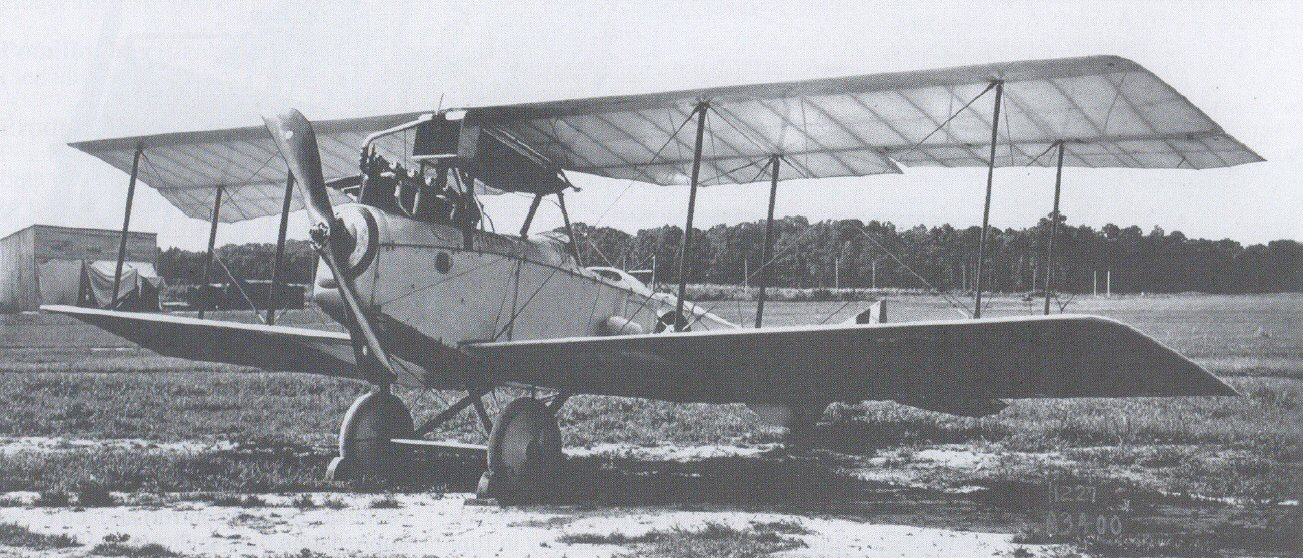 Pomilio PD no. P.3824 tested in USA